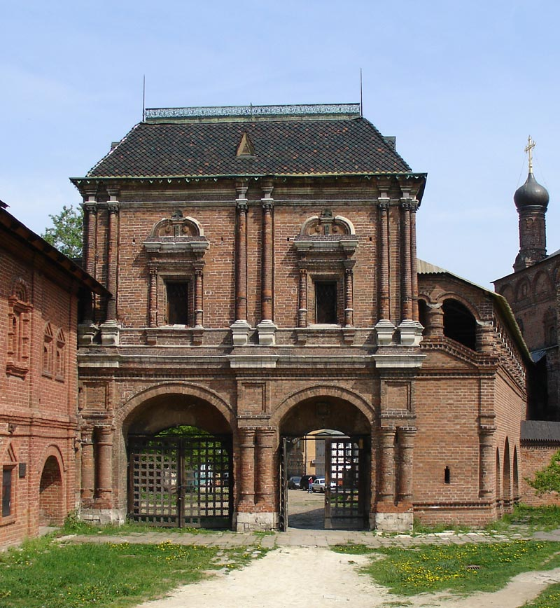 Moscow, Krutitsy Metochion, Teremok